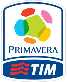 High resolution logo for the Campionato Primavera TIM